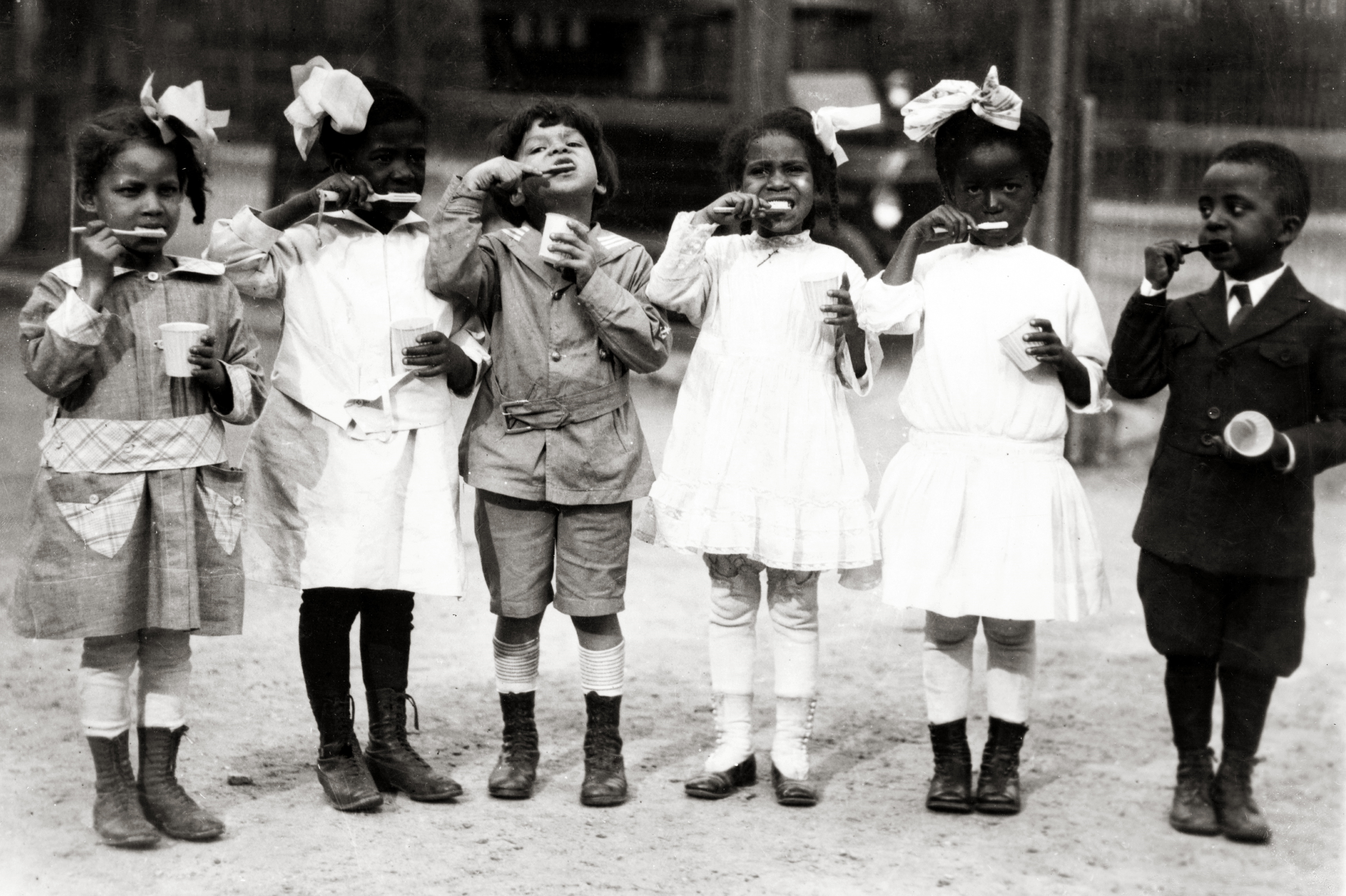 First graders from the Miner Normal School in Washington, D.C. brushing their teeth. Their teacher was Ada Hand.